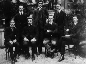 The very first ESSEC graduates (1909). They were only 7 at the time.